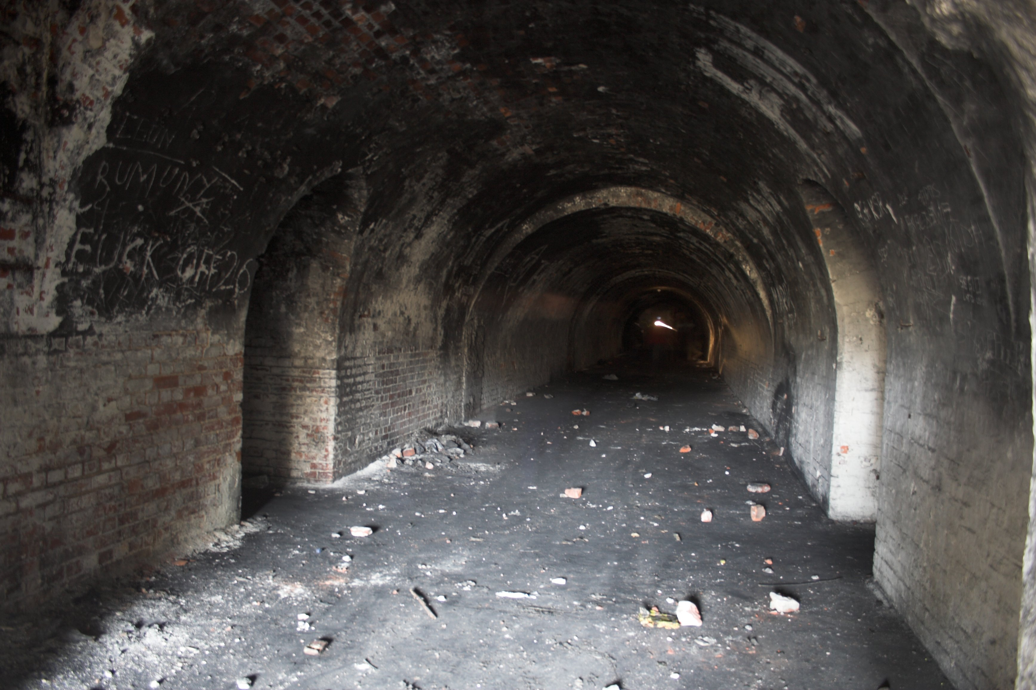 Fort XII Wladyslaw Jagiello, former Fort Va Ulrich von Jungingen, built between 1890 and 1893